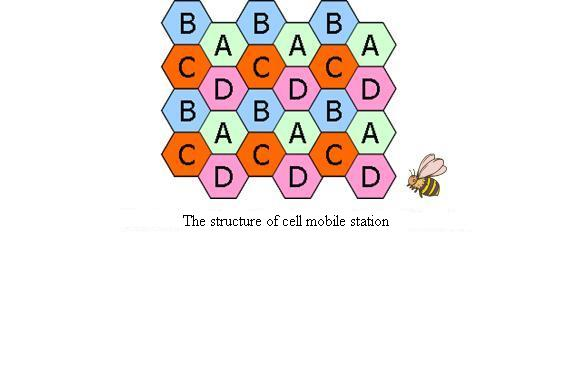 The structure of cell mobile station